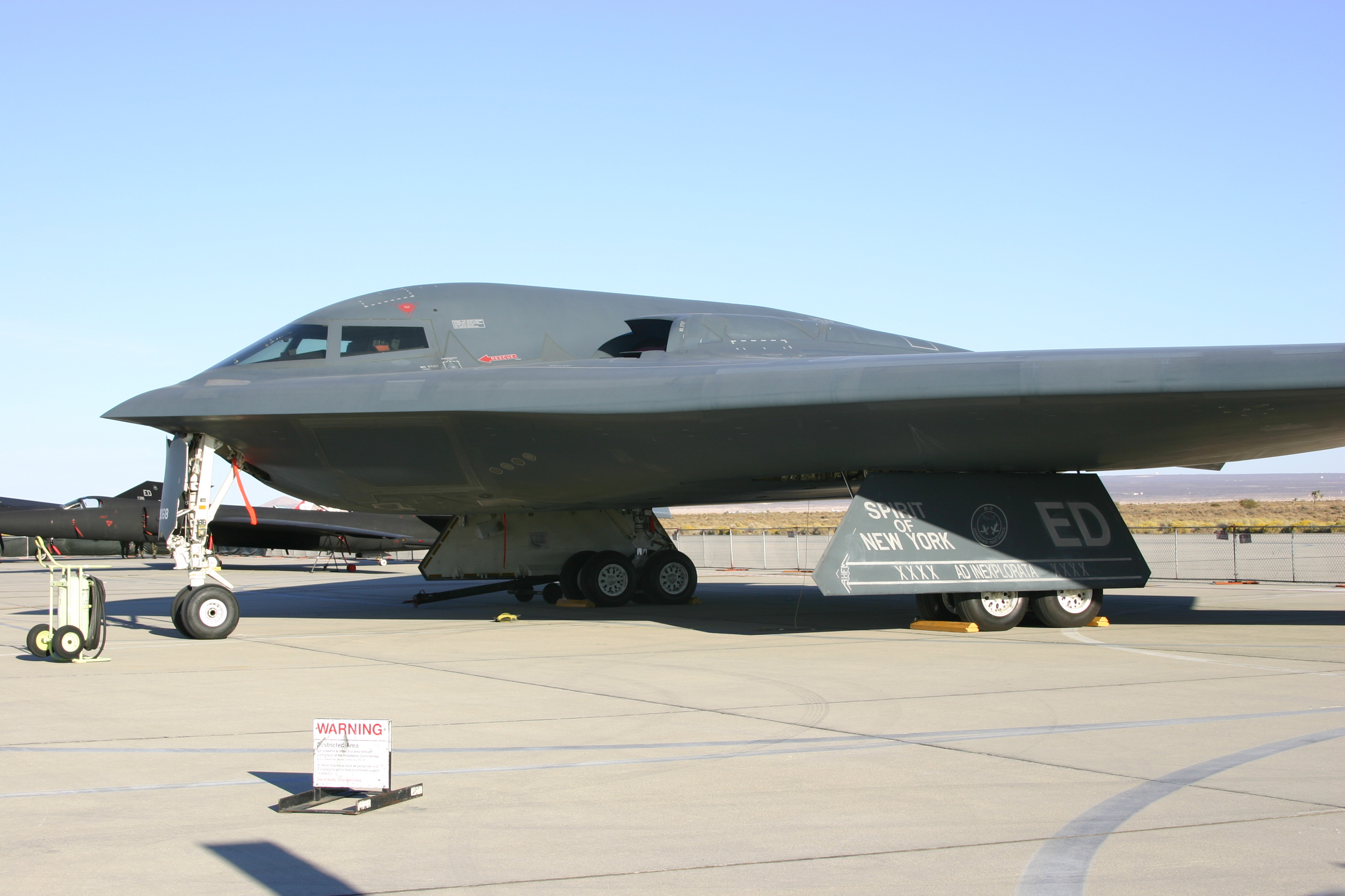 Edwards Air Force Base, Lancaster CA. October 28th and 29th 2006